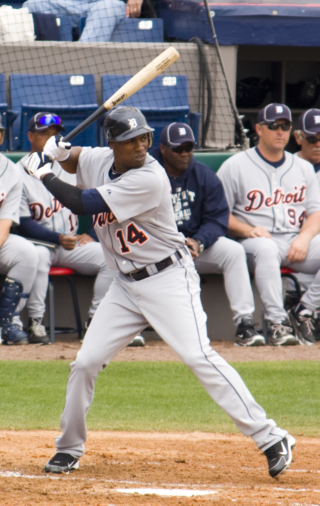 Austin Jackson